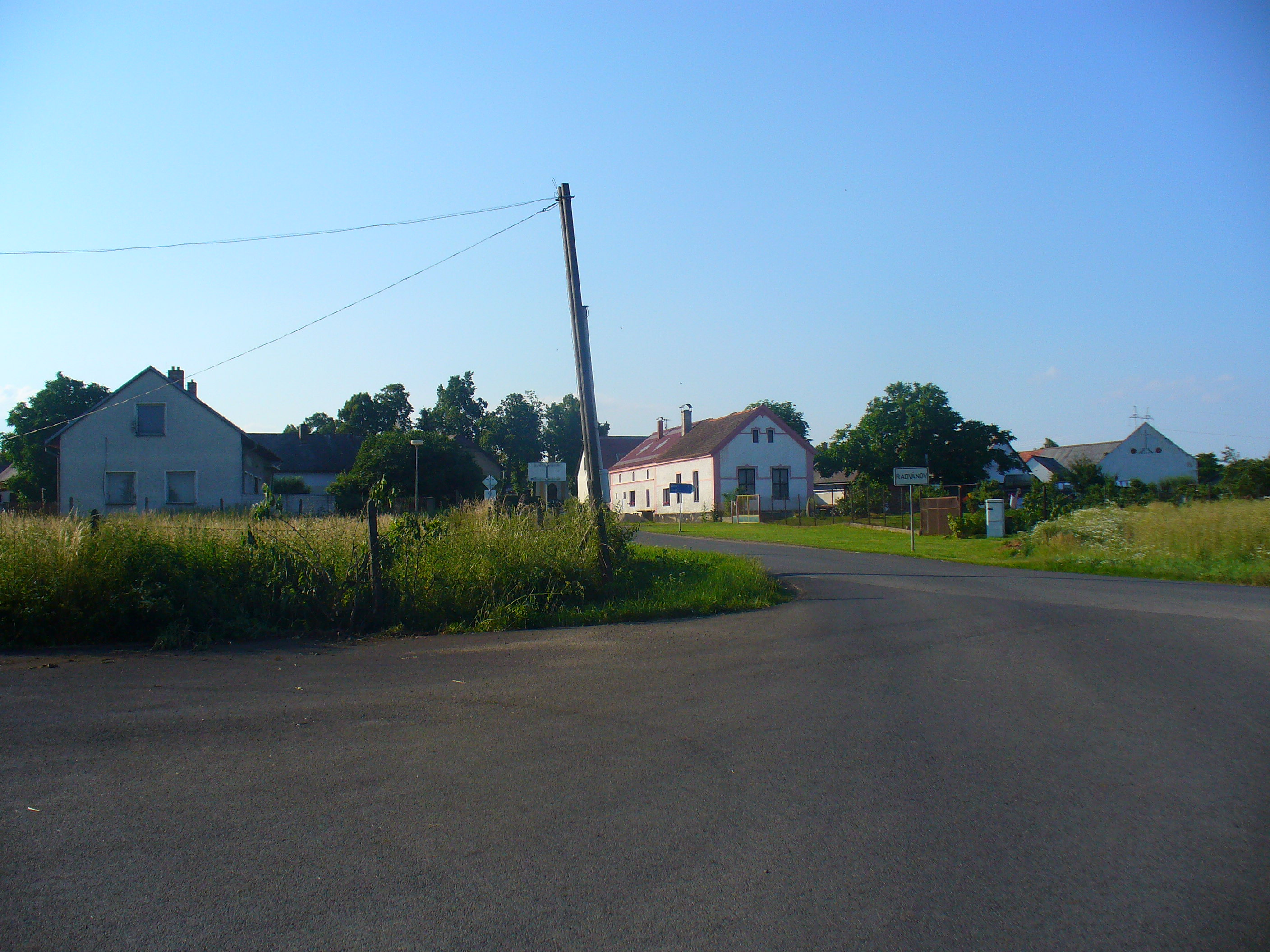 Village Radvánov